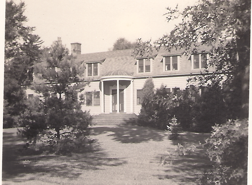 Part of Interpines Sanitarium, Goshen, NY